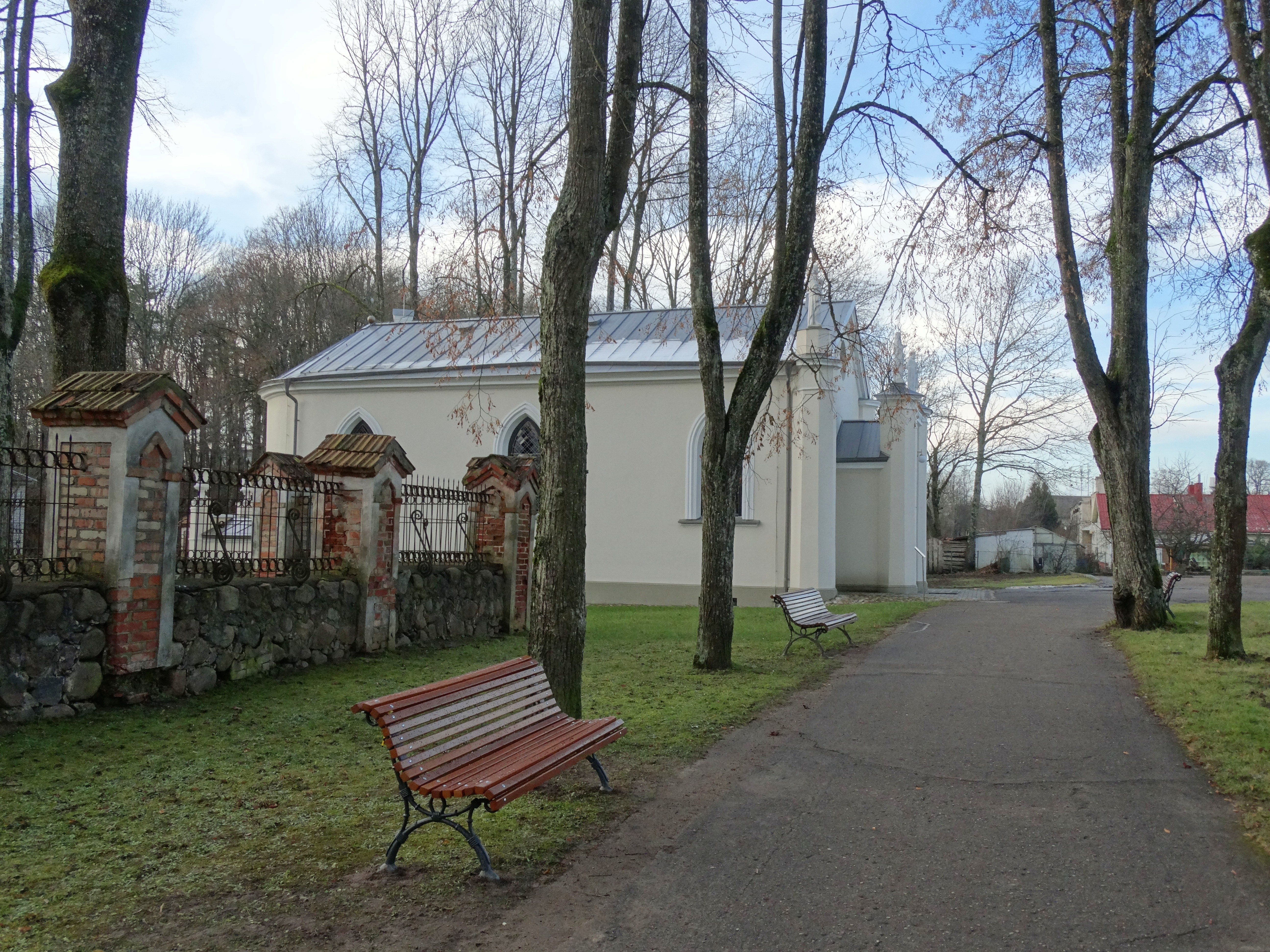 Tyszkiewicz family chapel, Trakų Vokė, Vilnius, Lithuania